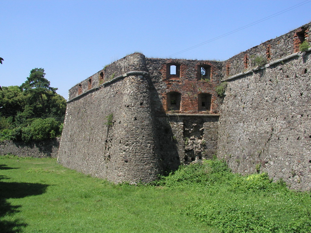 Bastion of the Castle in Uzhhorod